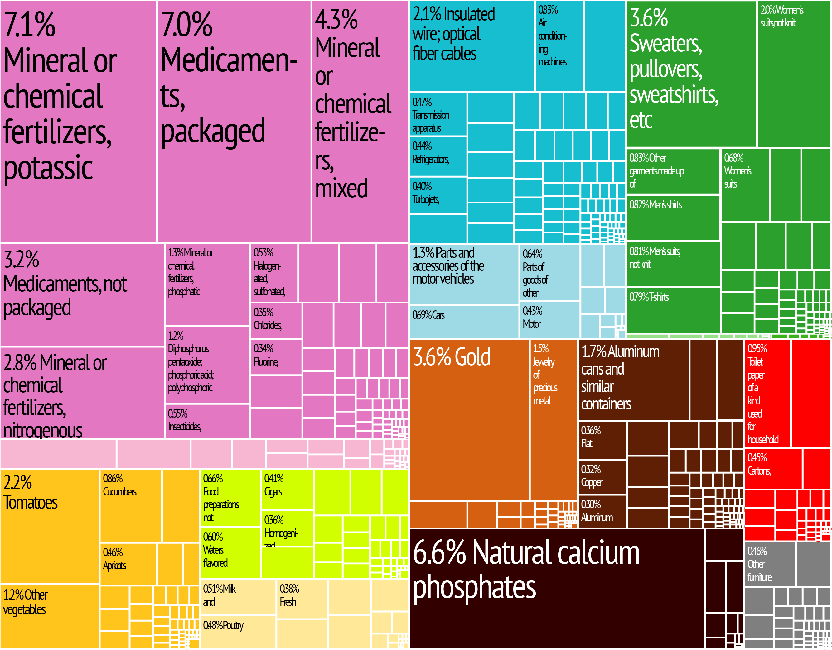 Jordan Export Treemap from MIT Harvard Economic Complexity Observatory